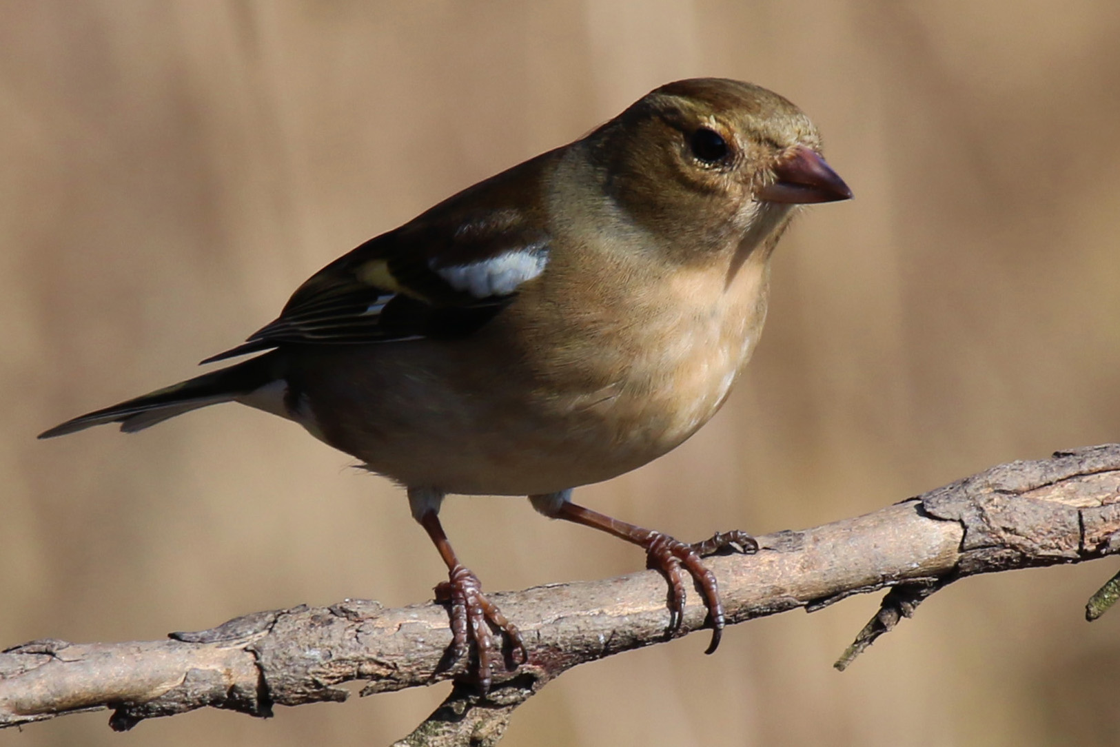 Chaffinch (fringilla coelebs) - female, at Otmoor RSPB Reserve, Oxfordshire